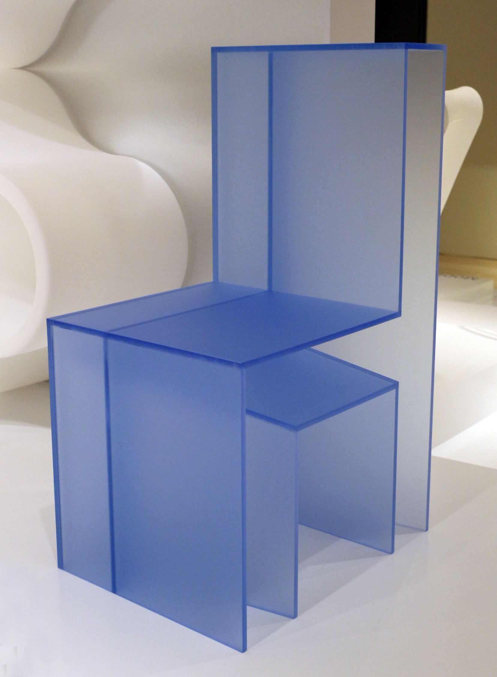 Furniture in the Indianapolis Museum of Art